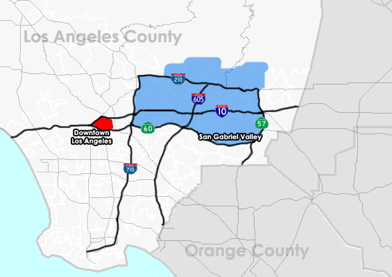 A map of the San Gabriel Valley — located in Los Angeles County, Southern California. Created using census data.